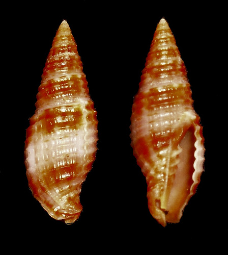 Mitra lienardi Sowerby II & III, 1874